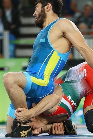 2016 Summer Olympics, Men's Freestile Wrestling 74 kg